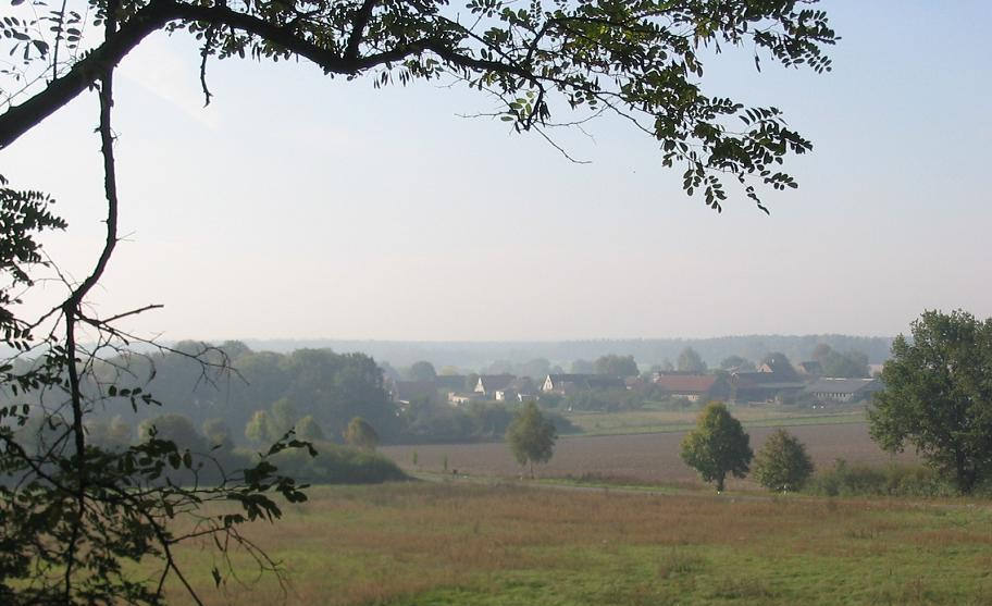 View from the Hagelberg (mountain) to Klein-Glien in the October-fog. The village Hagelberg is a part of the town Belzig in the district Potsdam Mittelmark, state Brandenburg, Germany. The village appertains to the nature park Naturpark Hoher Fläming. The eponymous Hagelberg (hill) is with a height of total 200 meters the highest elevation in the Fläming. There are two monuments commemorating to the prussian victory in the „Battle nearby Hagelberg“ in 1813 against Napoleon.